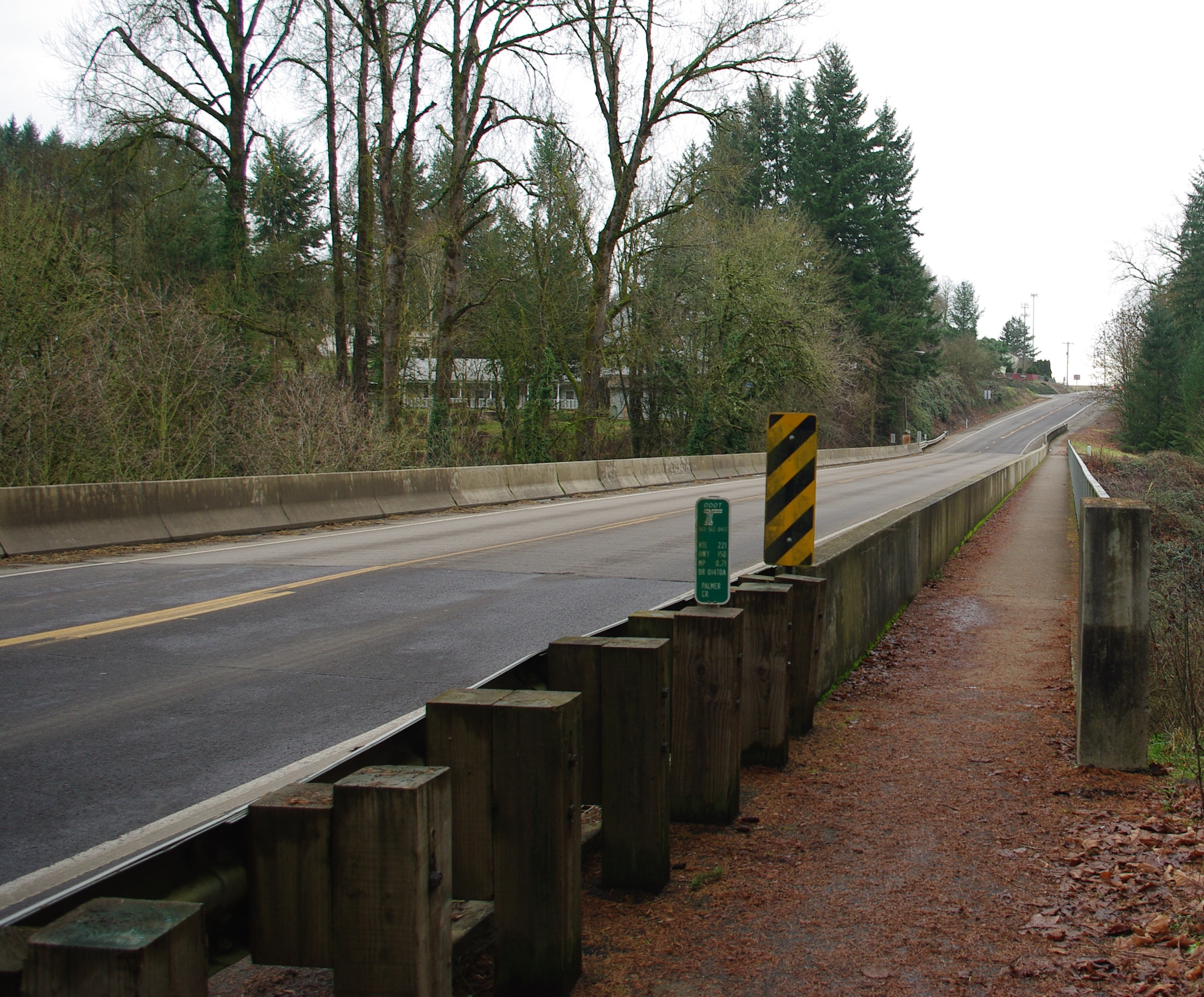 Oregon Route 221 over Palmer Creek at Dayton, Oregon.